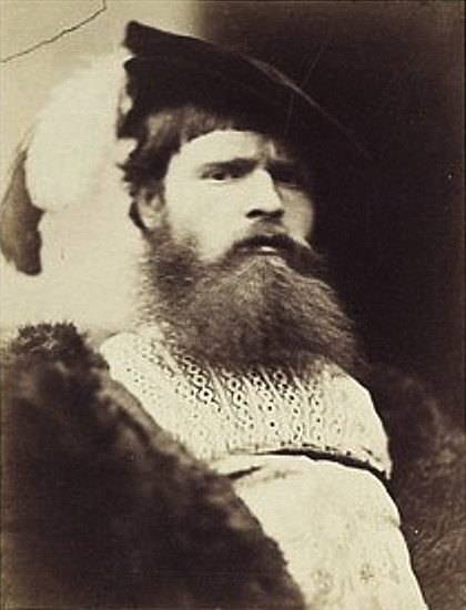 Portrait of William Frederick Yeames